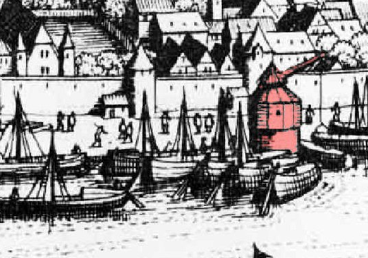 The crane Alter Krahnen (Old Crane) at the Moselle River outside of the city walls of Trier on an engraving by Merian 1646. The view is probably from an earlier time, but does not correspond to the view on the engraving in Münster's Cosmographiae Universalis (see commentary on image:De Merian Mainz Trier Köln 045.jpg). - The coloration is not from the original engraving and was added to highlight the building.